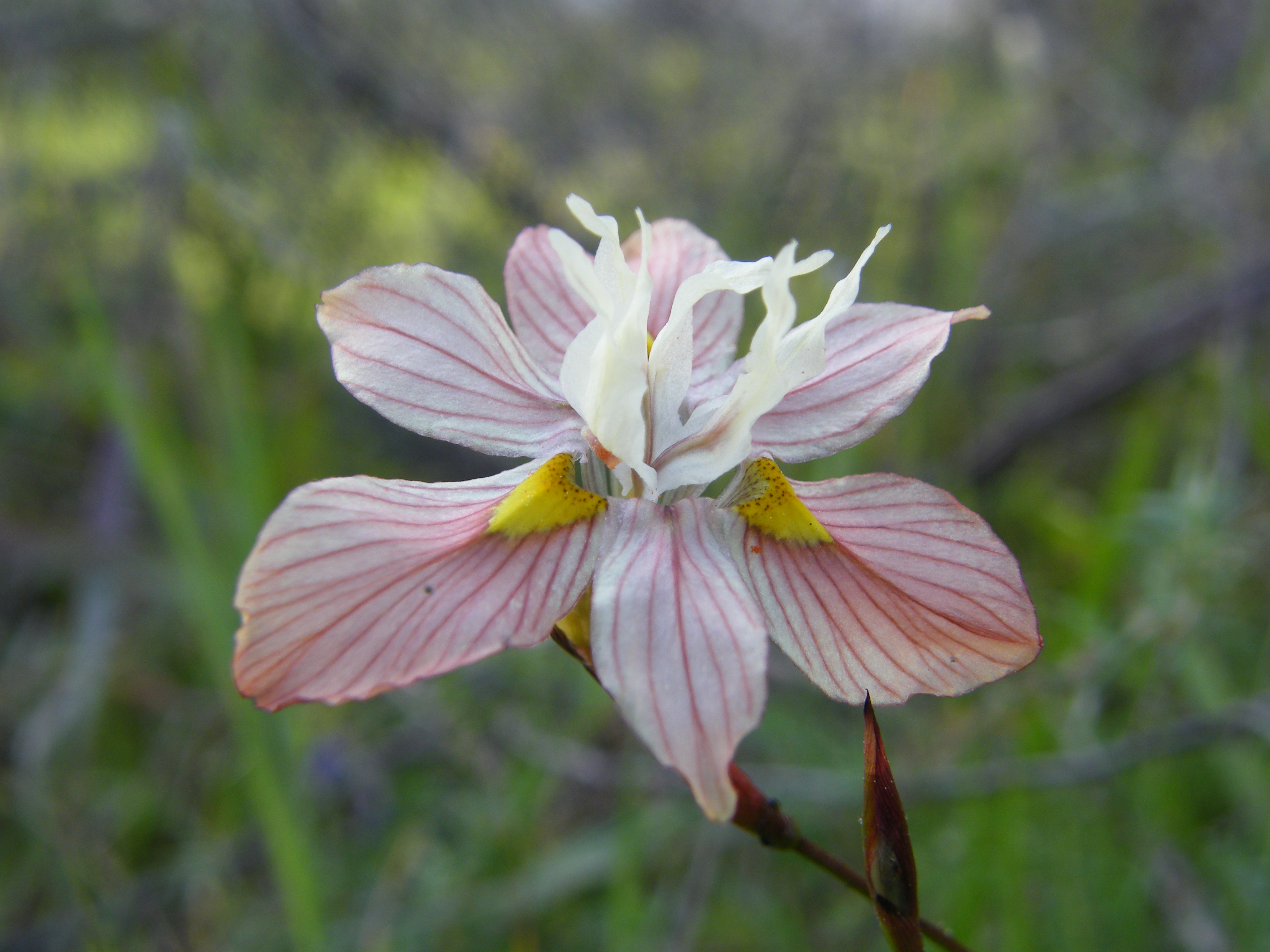 Moraea